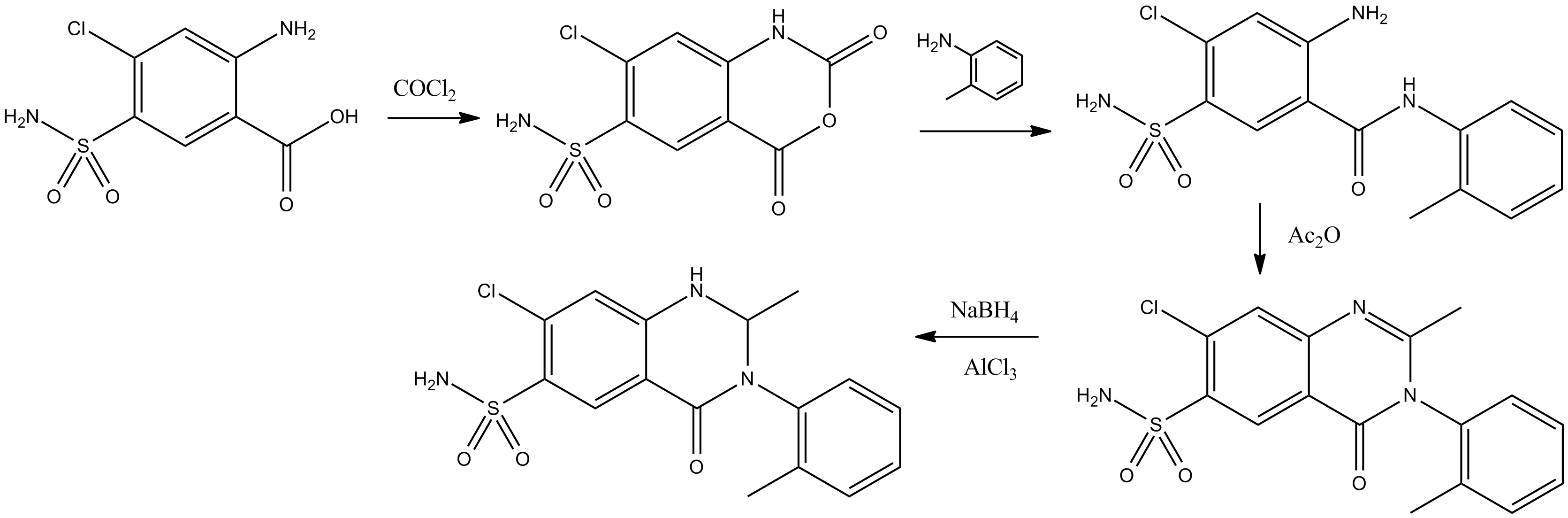 Chemical structure of Metolazone